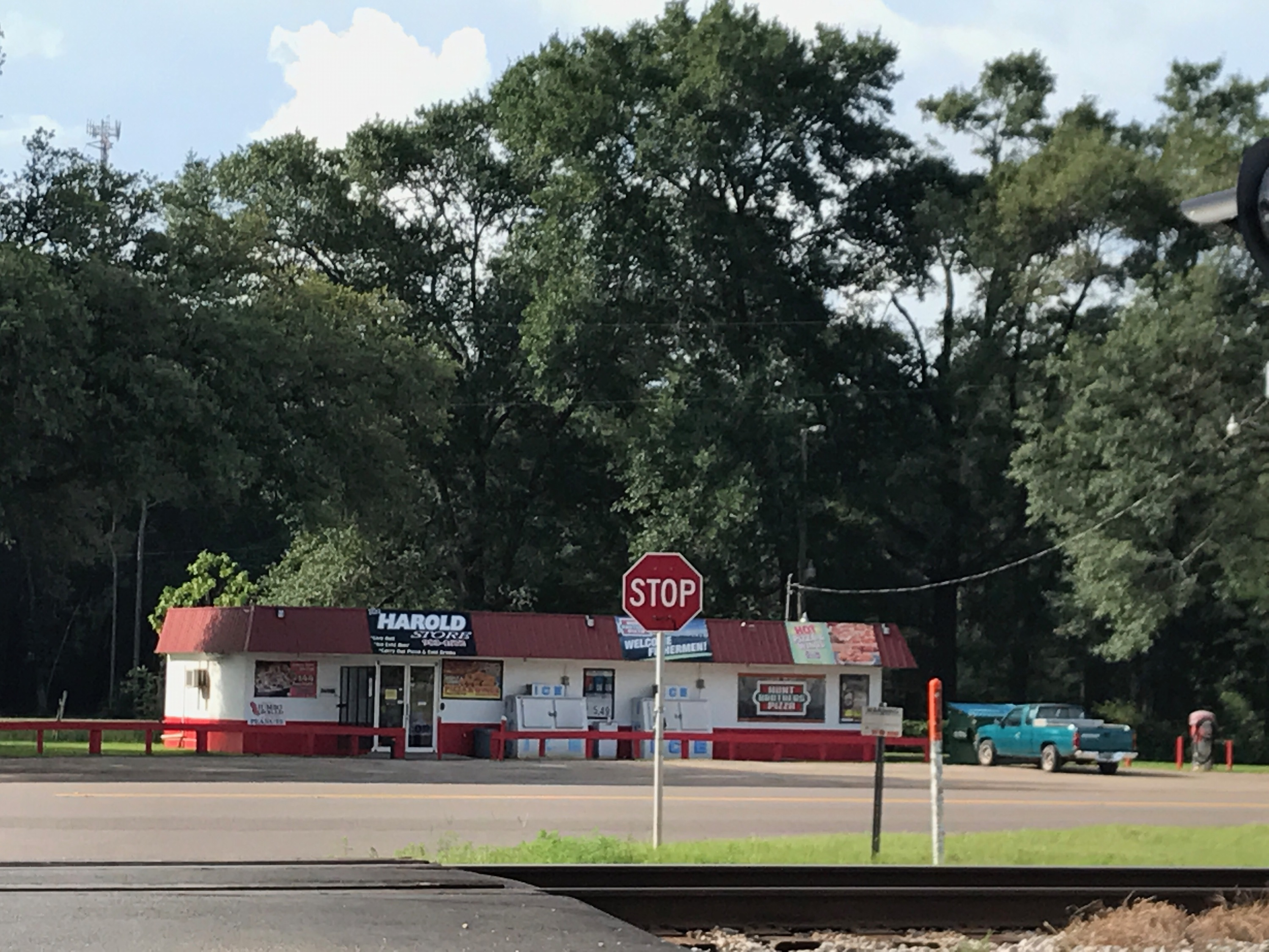 The Harold Store in Harold, Florida. Located at the intersection of Deaton's Bridge Road, Miller Bluff Road and US Highway 90, the store is the only retail operation in Harold.